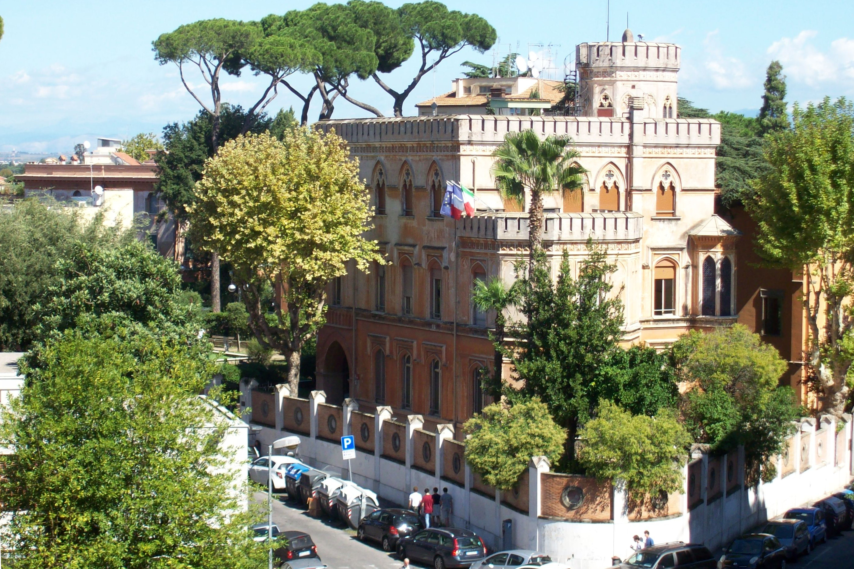 Villa Patrizi in Rome, seat of Lycée français Chateaubriand, French international secondary school in Rome, Italy